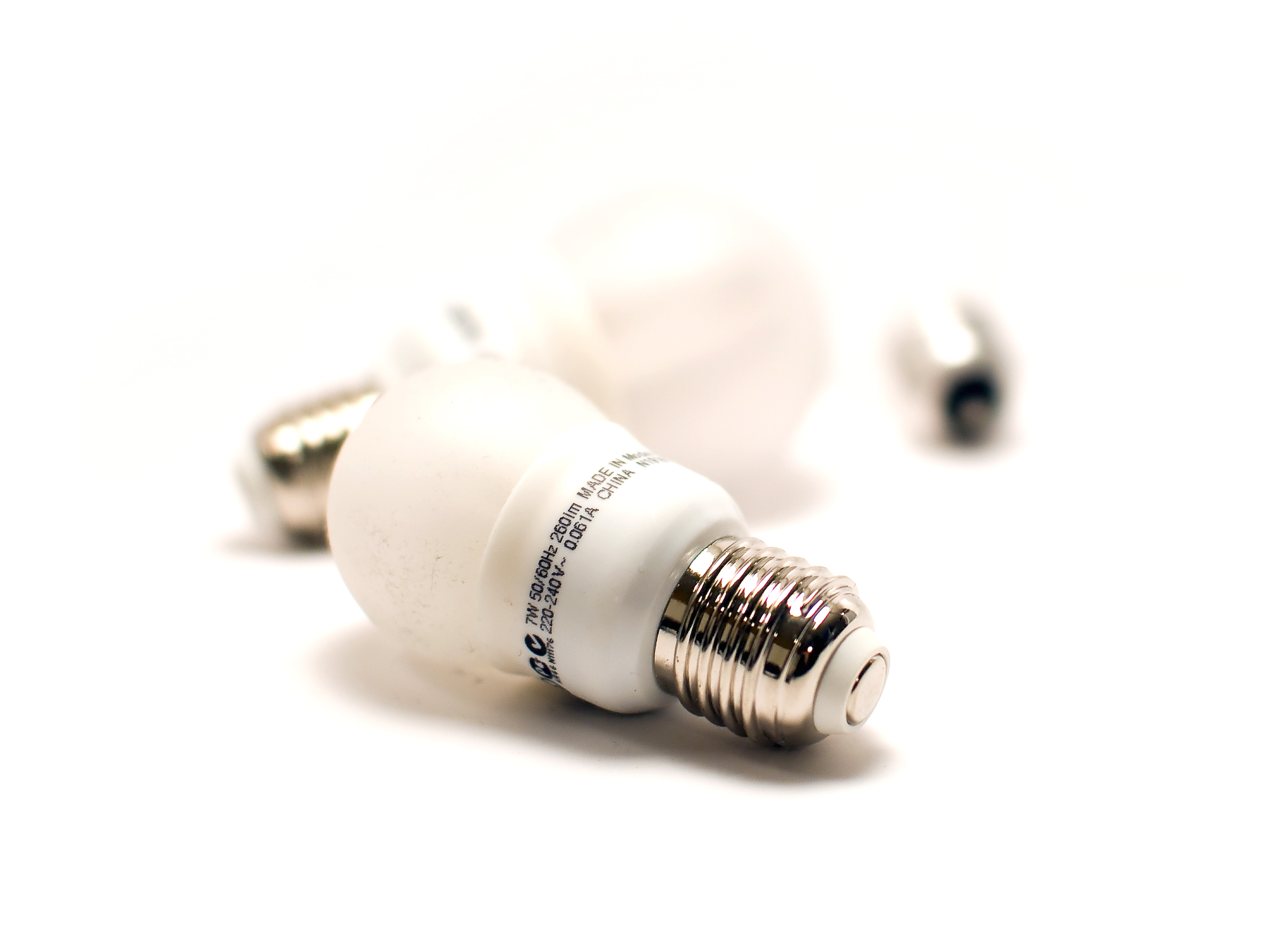 Low energy lightbulbs.